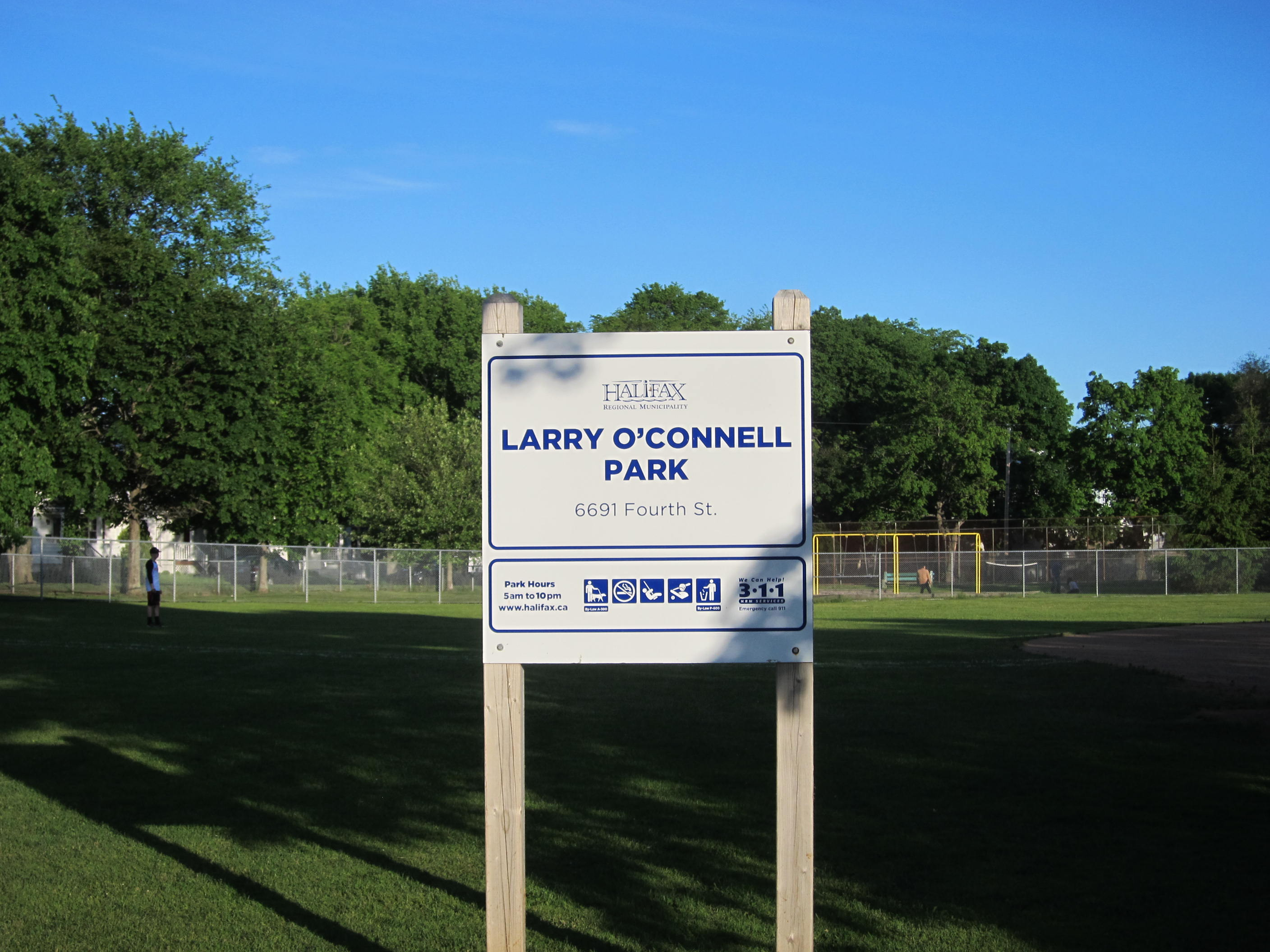 The sign at Larry O'Connell Park in Halifax, Nova Scotia.